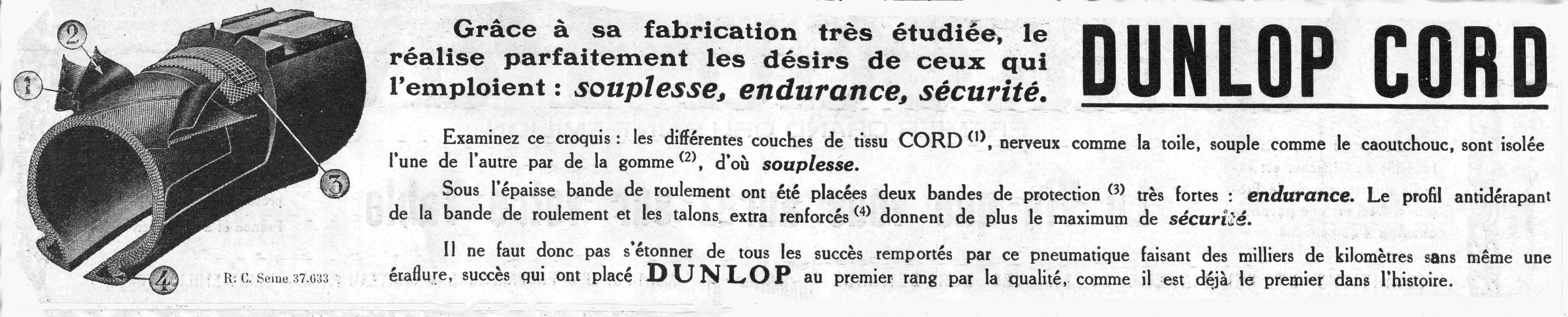 Dunlop tires : advertisement of 1924